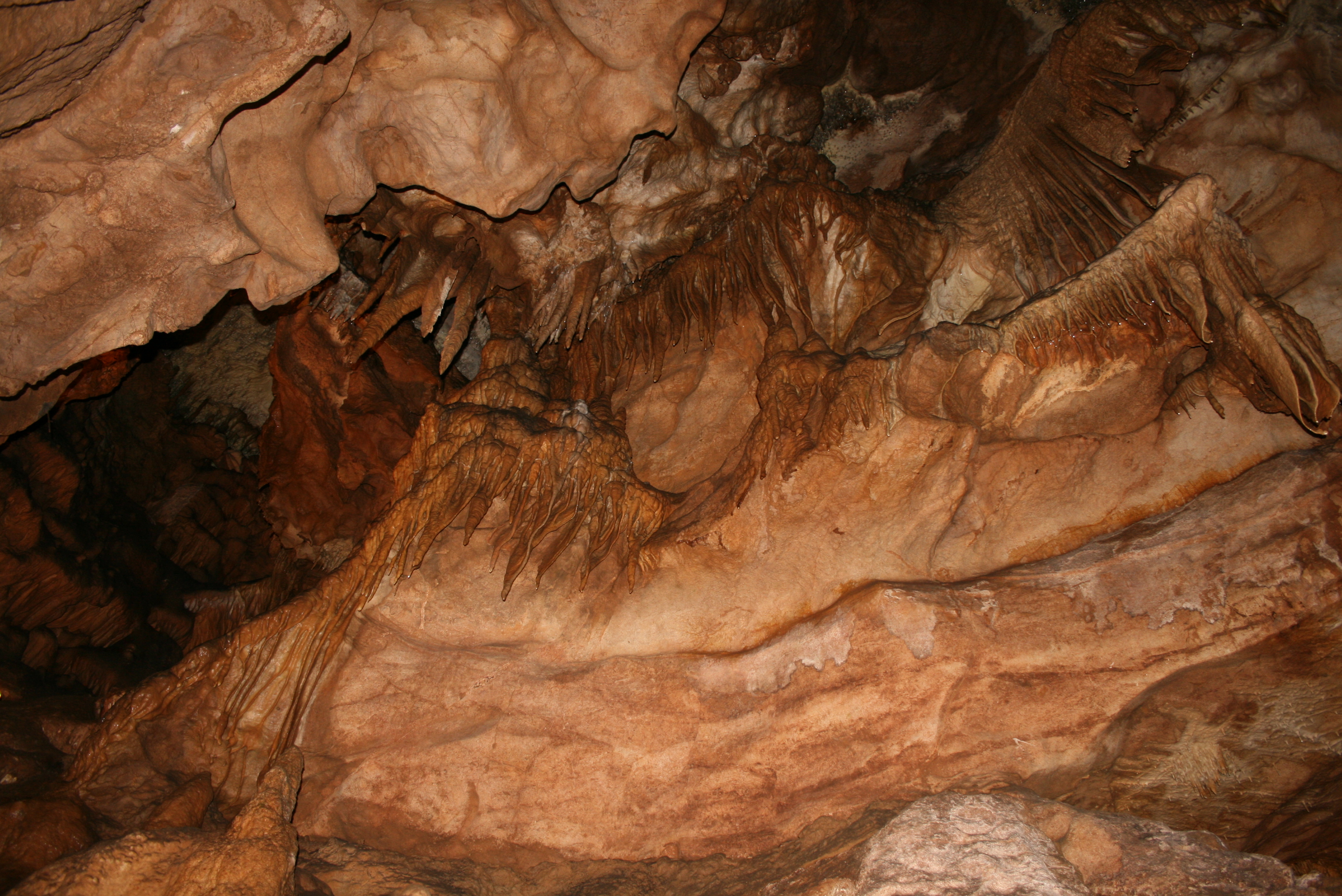 The Jasovska cave